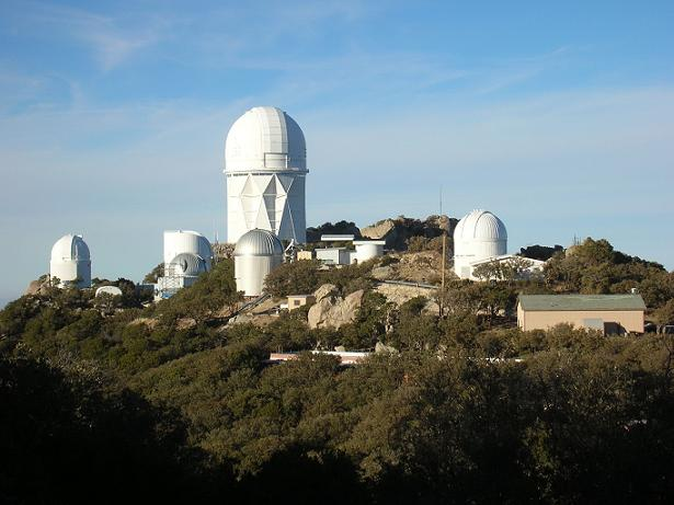 View of Kitt Peak National Observatory. Category:Images of Arizona.